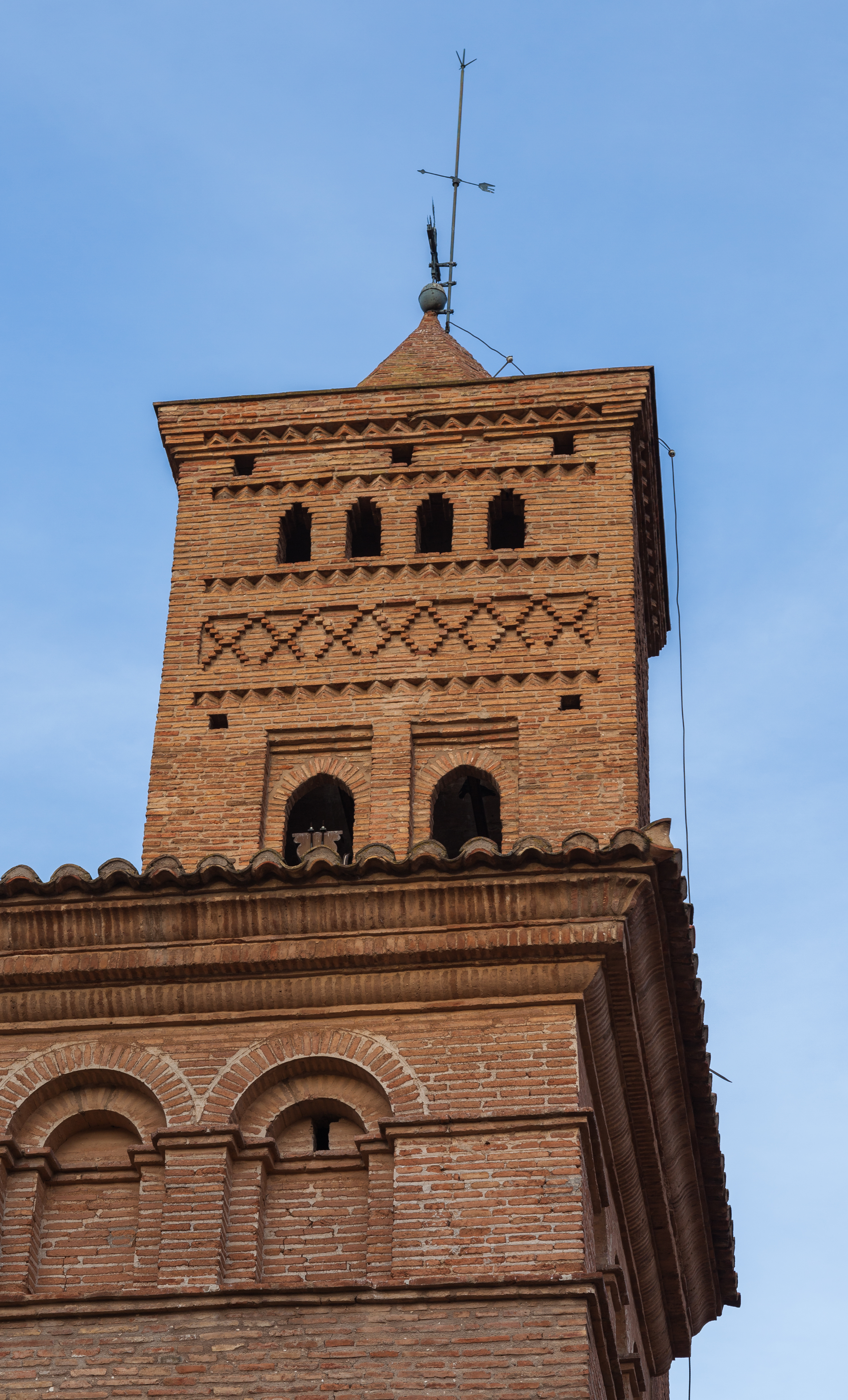 St Martin of Tours church, Morata de Jiloca, Zaragoza, Spain